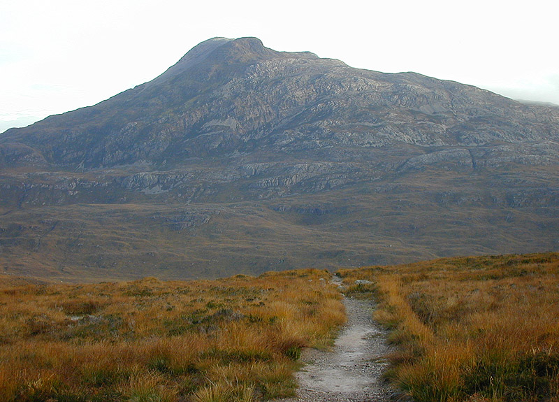 The Coire Dubh path Looking back down a short stretch of almost level path, after the steady climb from the glen. Sgurr Dubh lies across the way.